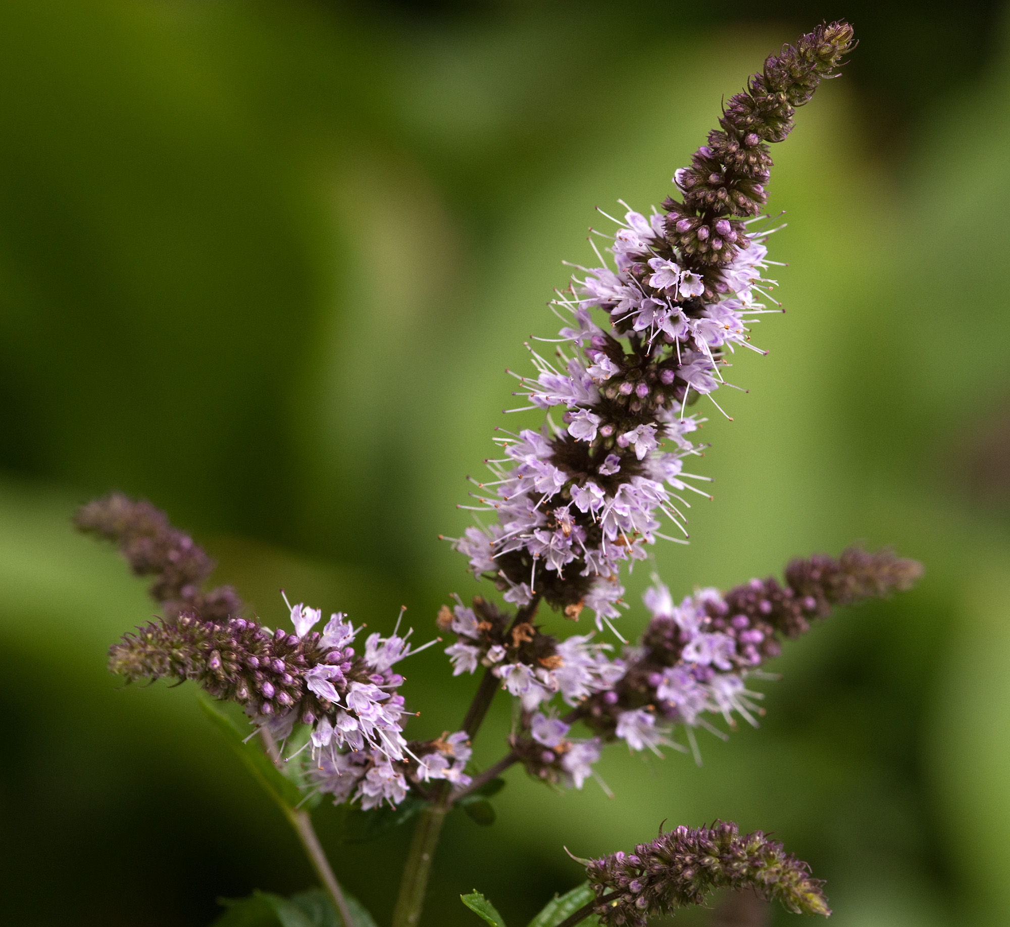 Flowers of Peppermint (Mentha × piperita)